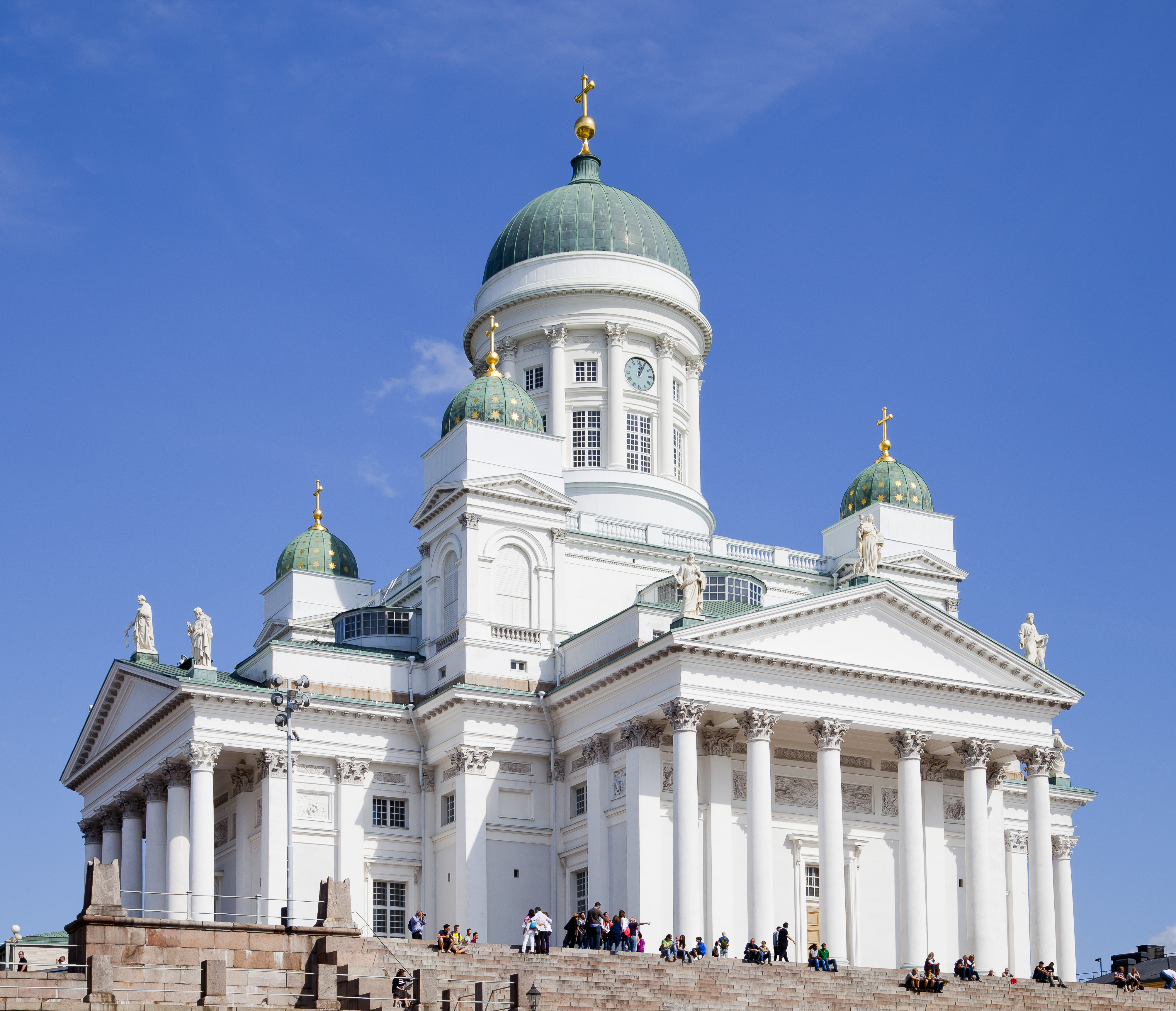 Helsinki Lutheran Cathedral, Finnland